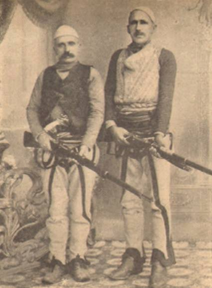 Isa Boletini and friend, ca. 1900